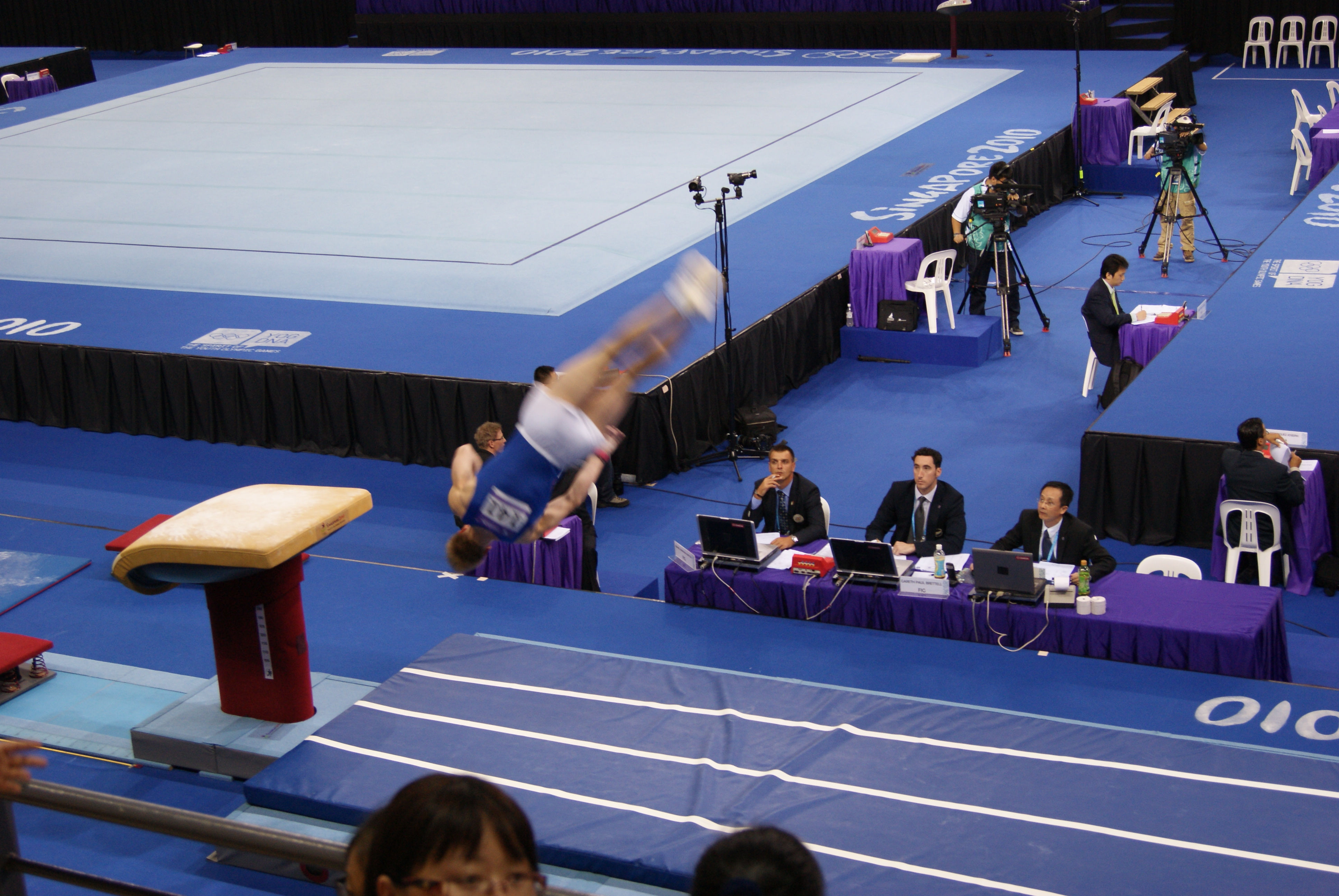 Uzbek gymnast Eduard Shaulov performing a vault during Men's Qualification – Subdivision 1 of the artistic gymnastics competition at the 2010 Summer Youth Olympics at Bishan Sports Hall, Singapore.